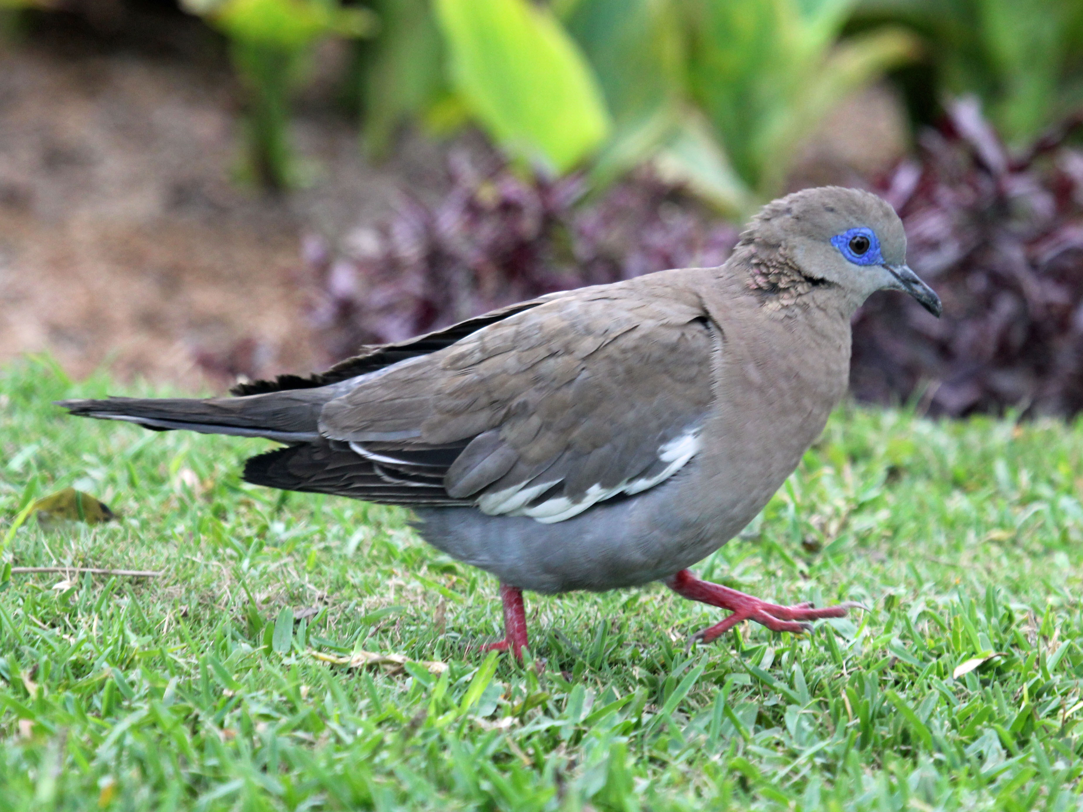 West Peruvian Dove (Zenaida meloda) - Lima, Peru